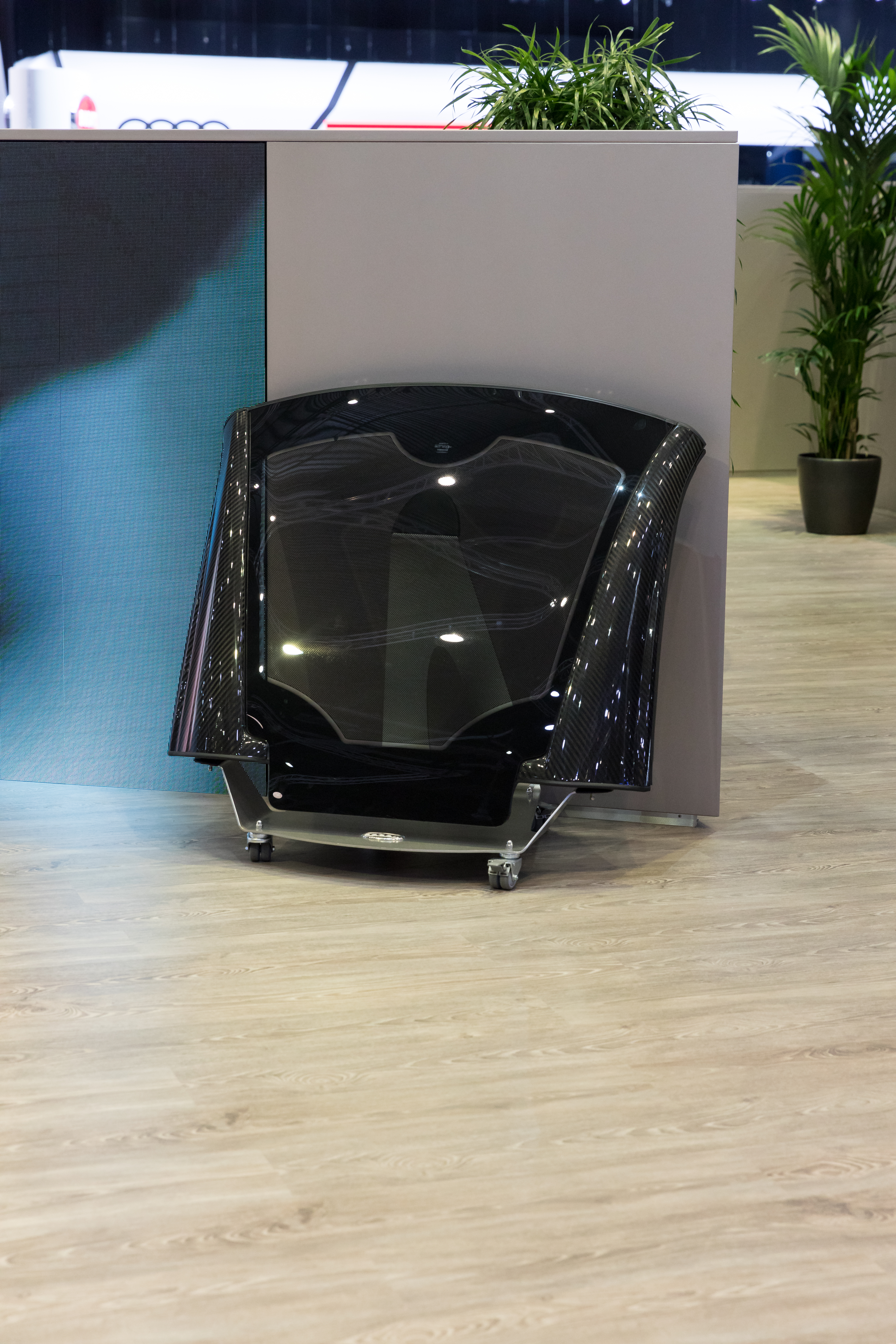 Geneva International Motor Show 2018